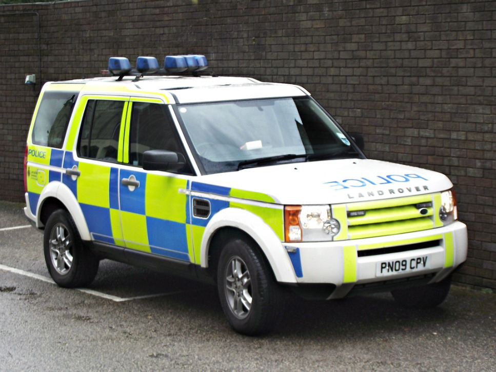 Land Rover police vehicle, Morecambe. With "POLICE" in mirror writing ("ECILOP").